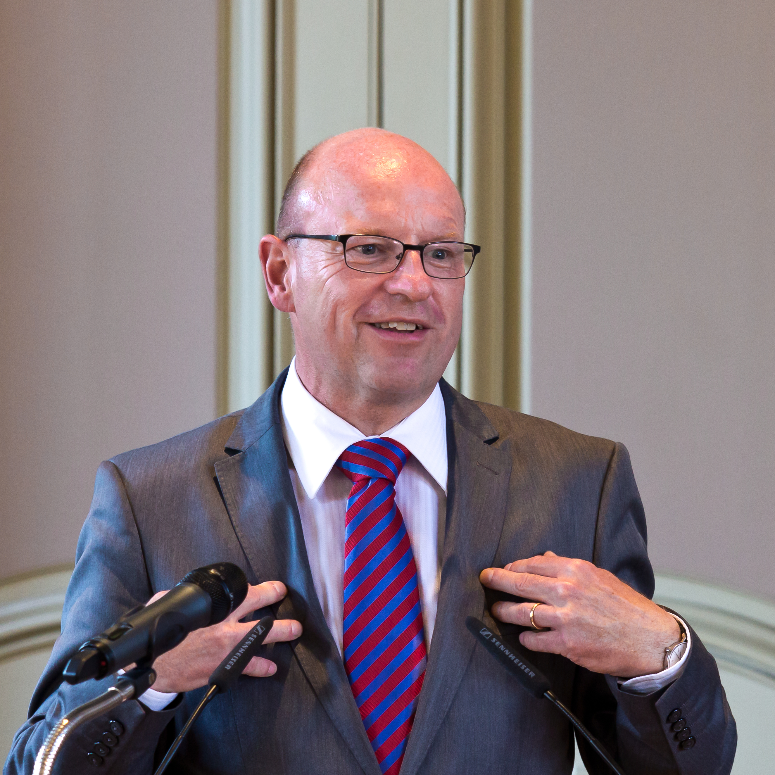 Eröffnungsveranstaltung im Erbdrostenhof zur Ausstellung des Historischen Archivs der Stadt Köln „Westfalen hilft Köln“ im Stadtmuseum Münster Foto: Begrüßung durch Markus Lewe, Oberbürgermeister der Stadt Münster